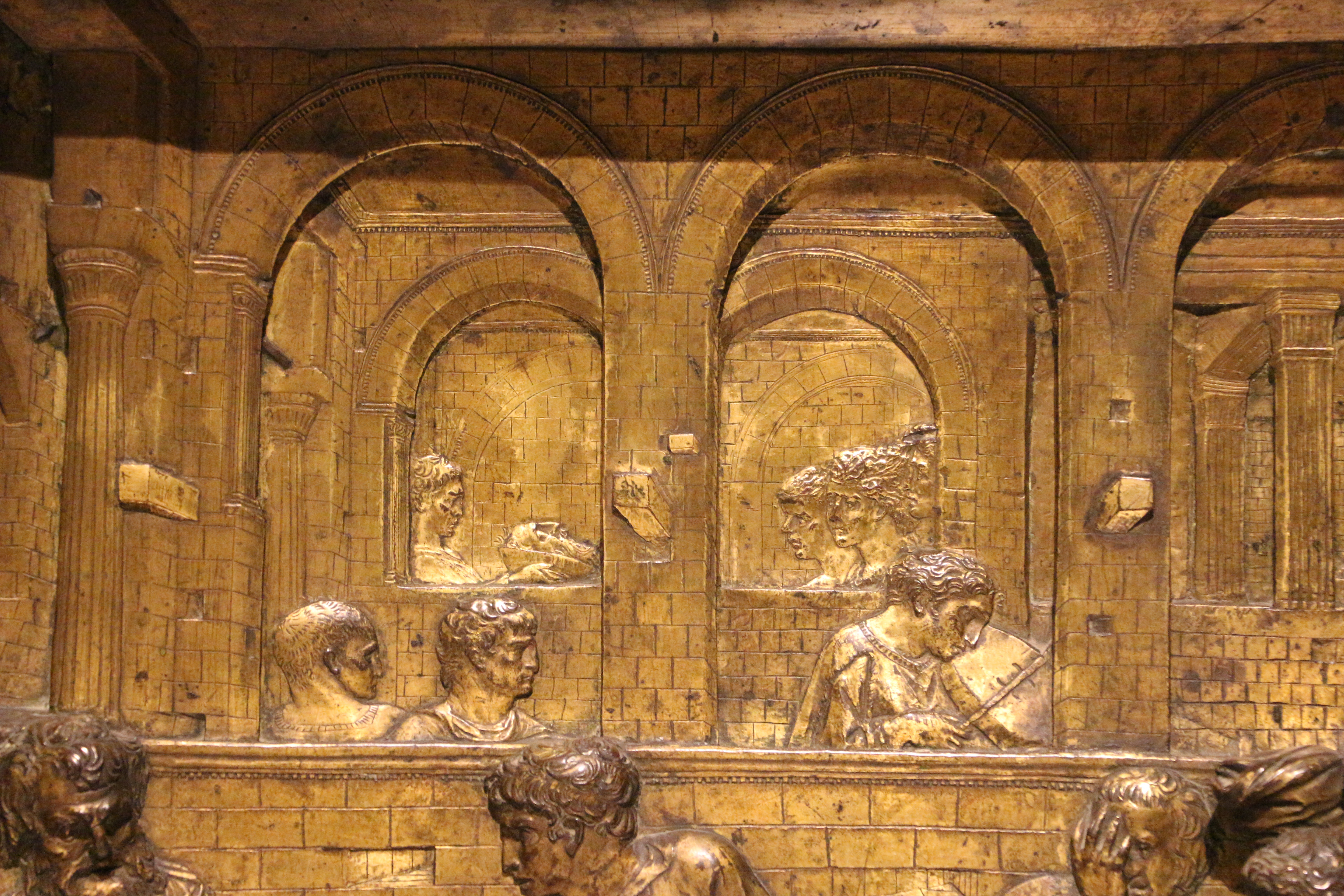 Donatello on the Baptismal font of the Siena Baptistry